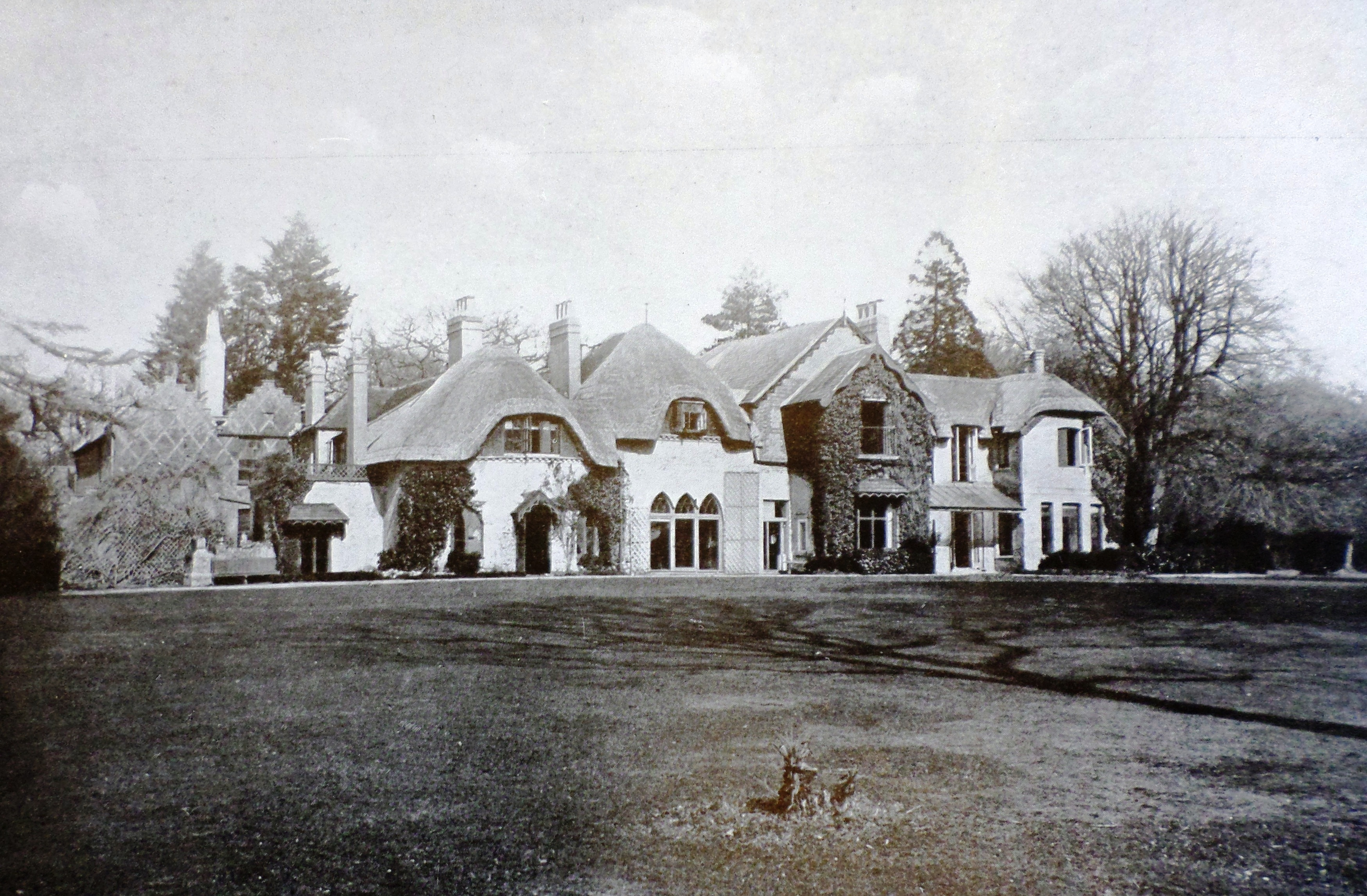 De Bathe property sale 1919 Woodend photograph